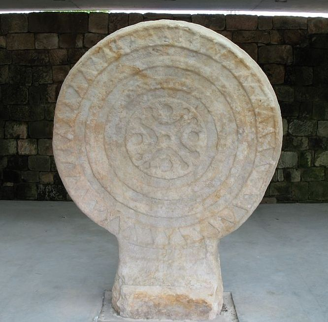 Stele of Barros. One of the cantabri steles of Barros.